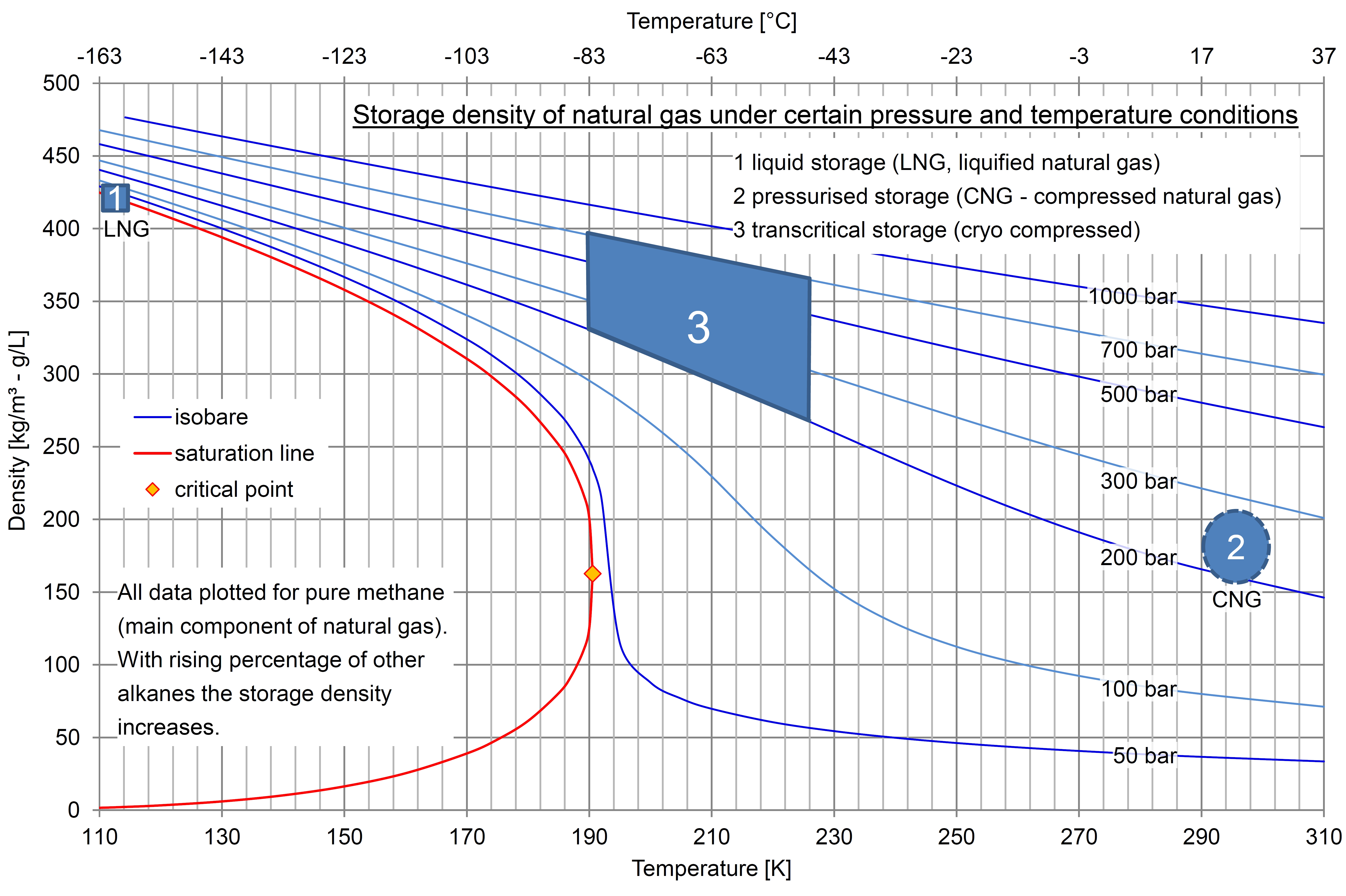 storage density of natural gas (assumption 100% methane) under certain pressure and tempeature conditions. (1) liquid storage - LNG, (2) pressurised storage CNG, (3) transcritical storage (cryo compressed)